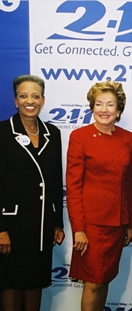 SENATOR DOLE AND DR. JOHNETTA COLE, PRESIDENT OF BENNETT COLLEGE, PROMOTE 2-1-1, THE PHONE NUMBER FOR VOLUNTEERING FOR AND SEEKING ASSISTANCE FROM COMMUNITY SERVICES. SENATOR DOLE, ALONG WITH SENATOR HILLARY RODHAM CLINTON, INTRODUCED LEGISLATION IN THE SENATE TO MAKE 2-1-1 SERVICES AVAILABLE NATIONWIDE.